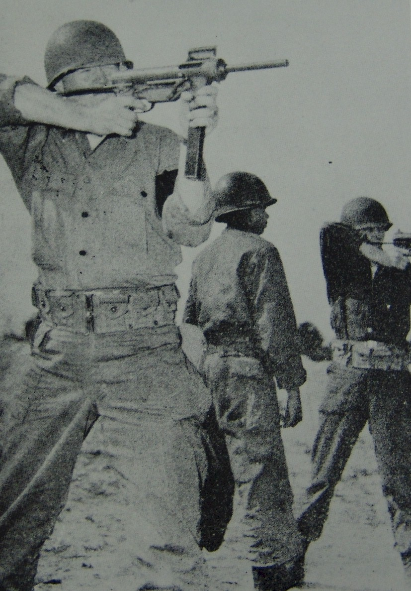 The M3 sub-machine gun, also known as the “grease gun,” proved to be a favorite weapon in close combat. Photo at Fort Jackson — 1951.